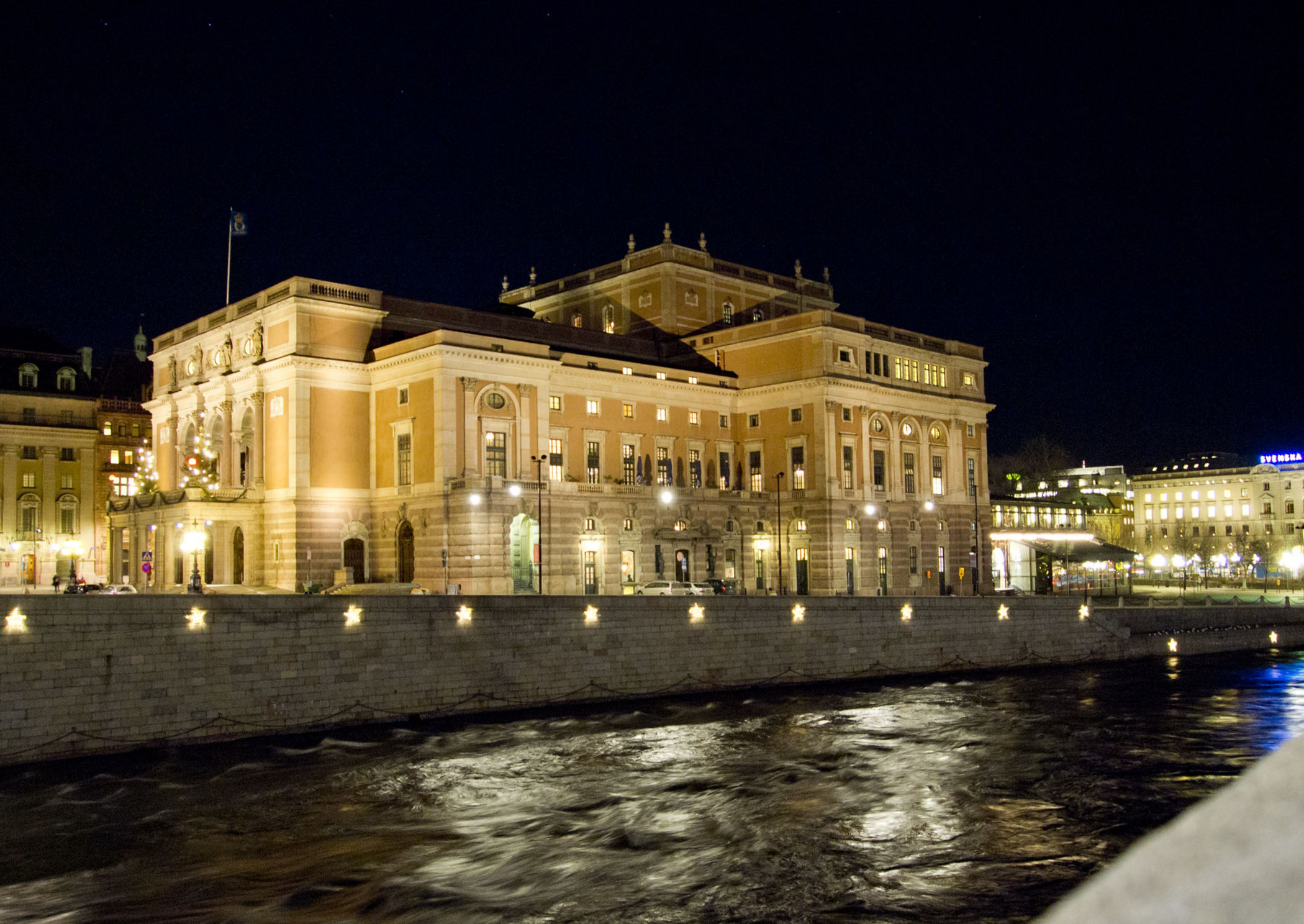 Kungliga operan in Stockholm This photograph was taken with a Olympus E-PL1.